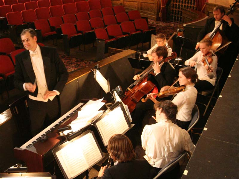 Rick Benjamin and the Paragon Ragtime Orchestra perform at the Poncan Theatre in Ponca City Oklahoma on October 4, 2008. Attribution and a photo credit for this photo must be provided to Hugh Pickens and a link to Hugh Pickens